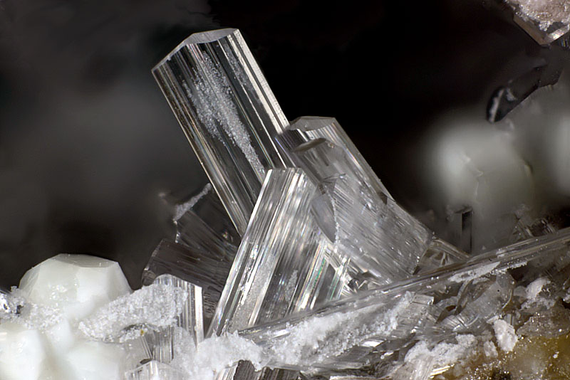 Afwillite Locality: Campomorto Quarry, Pietra Massa Locality, Montalto di Castro, Viterbo Province, Latium, Italy Original description: 1.03 mm group of Afwillite crystals. Collection Domenico Preite photo Matteo Chinellato